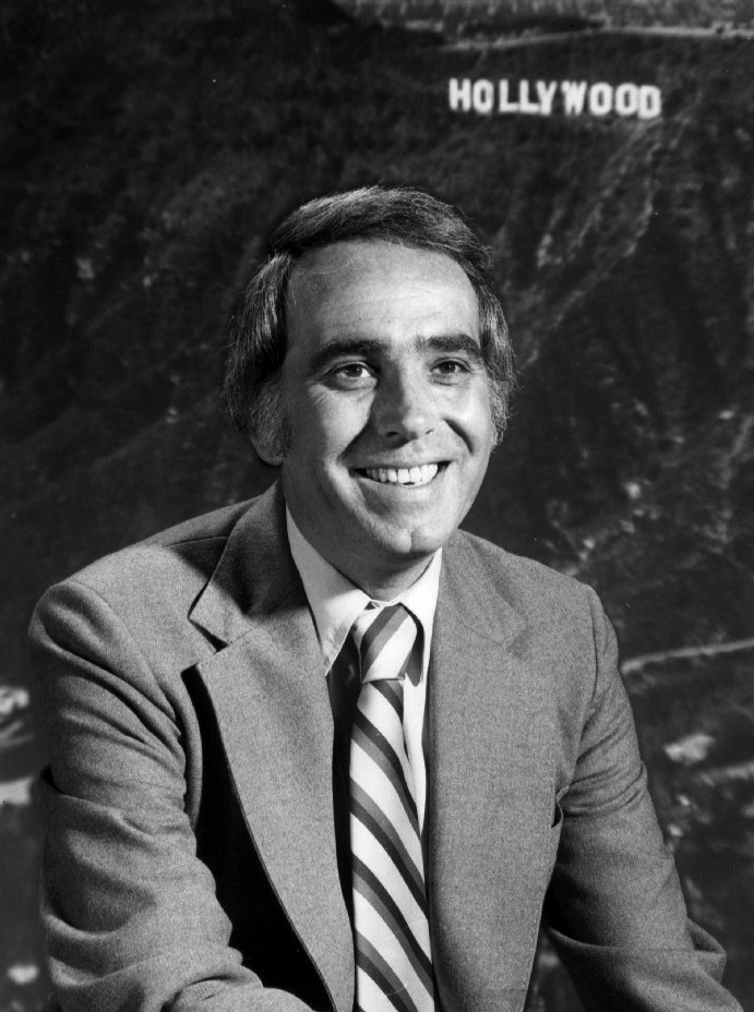 Photo of journalist/talk show host Tom Snyder as his Tomorrow program returned to California from New York.